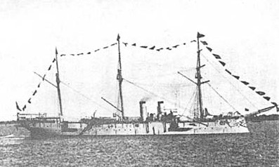 Chinese steel cruiser Nanchen